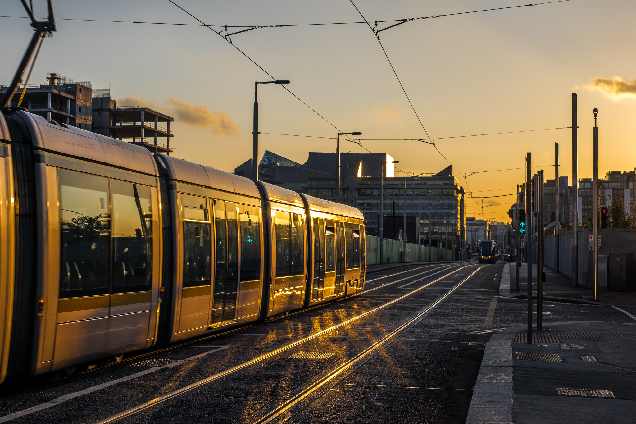 This is a free picture released under Creative Commons Attribution 2.0 Generic. Feel free to use and share this picture but please give me credit linking my website or my Flickr account. More info about me on